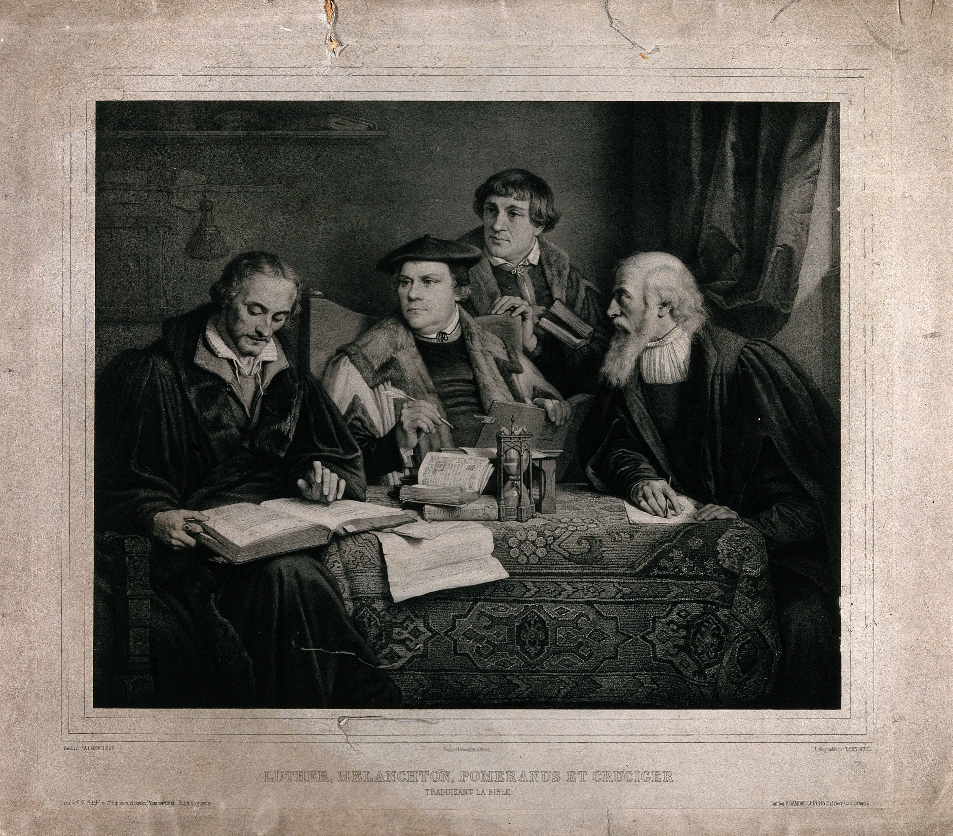 Martin Luther, Philip Melanchthon, Pomeranus and Crucicer around a table, translating the Bible. Iconographic Collections Keywords: Protestantism; P. A. Labouchère; Protestant; Reformation; Léon. Noel